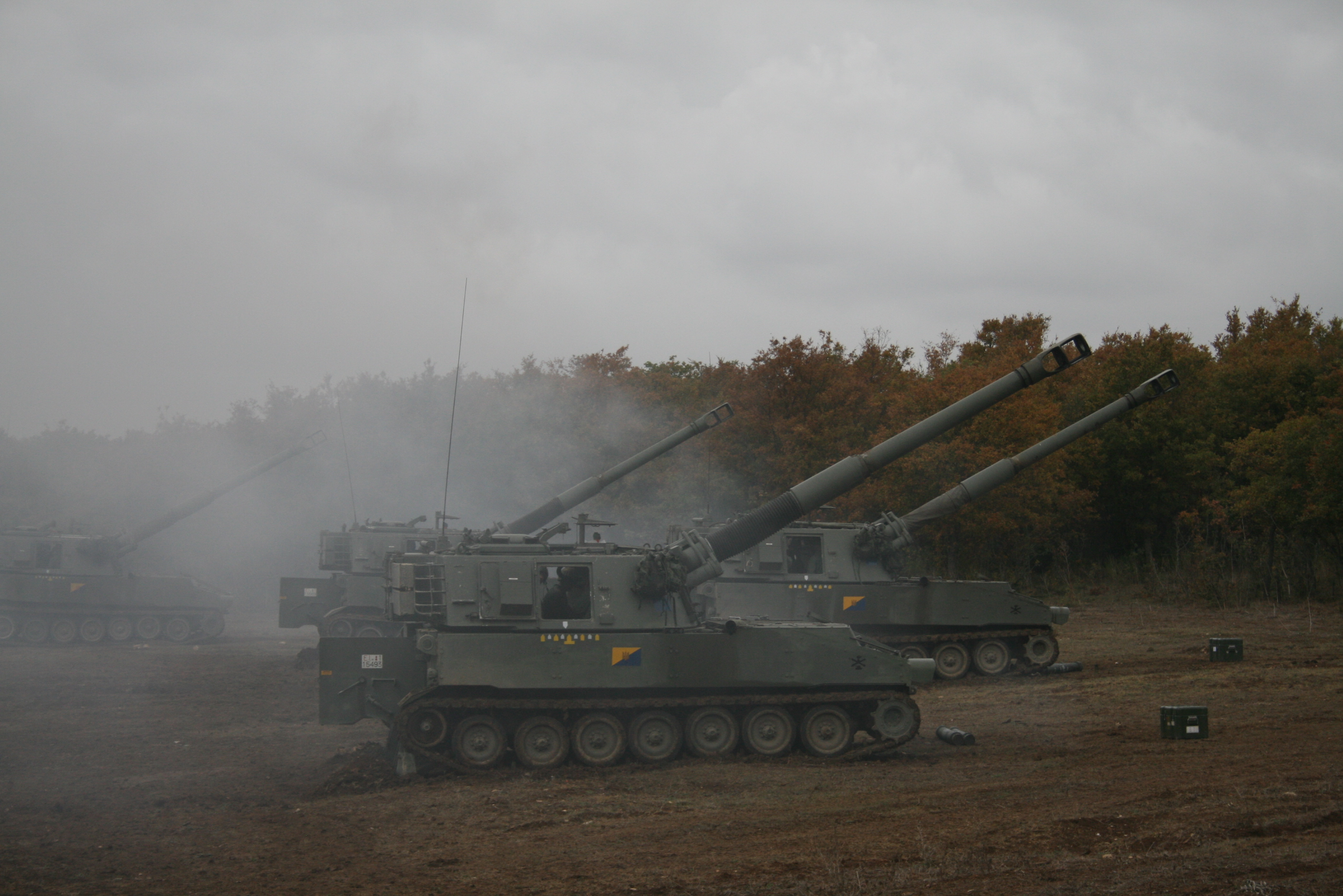 Bty M109L of 52°Rgt. firing